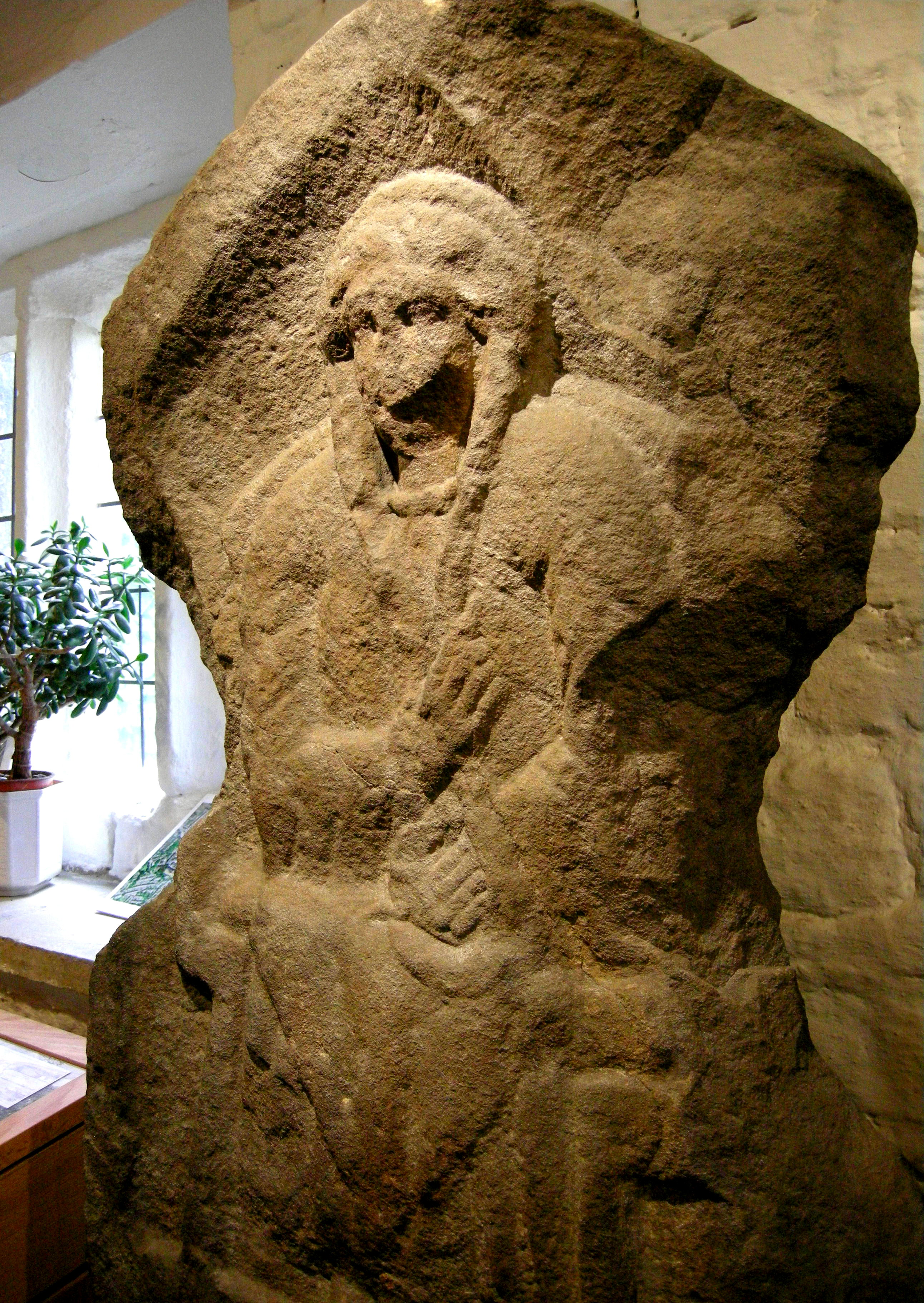 Gritstone bas-relief of Romano-British woman, in Manor House Museum, Ilkley, West Yorkshire.